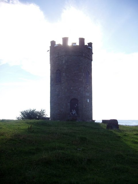 Folly tower near Pontypool. This structure is known as Pontypool Park's Folly Tower although on the OS map it is described as a war memorial. A plaque on it refers to its refurbishment in 1994 and says it was 230 years old then. So, what happened in 1764 that made people build towers? The tower is built on the southern end of a ridge crossing the square N to S, the northern end of which is Blorenge (84043). The square holds cattle fields and a little forest in E.